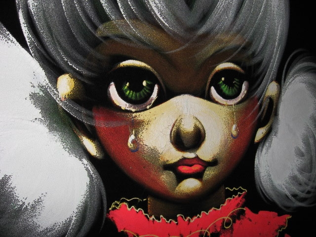 Velvet Painting that was commissioned for my family while in vacation in Tijuana in the 1970s. This is a close-up shot to show the detail of the strokes on the actual velvet.